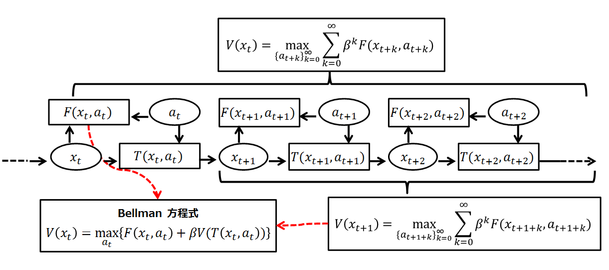 A flow chart of Bellman equations